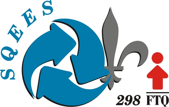 Syndicat québécois des employées et employés de service, section locale 298 (FTQ)